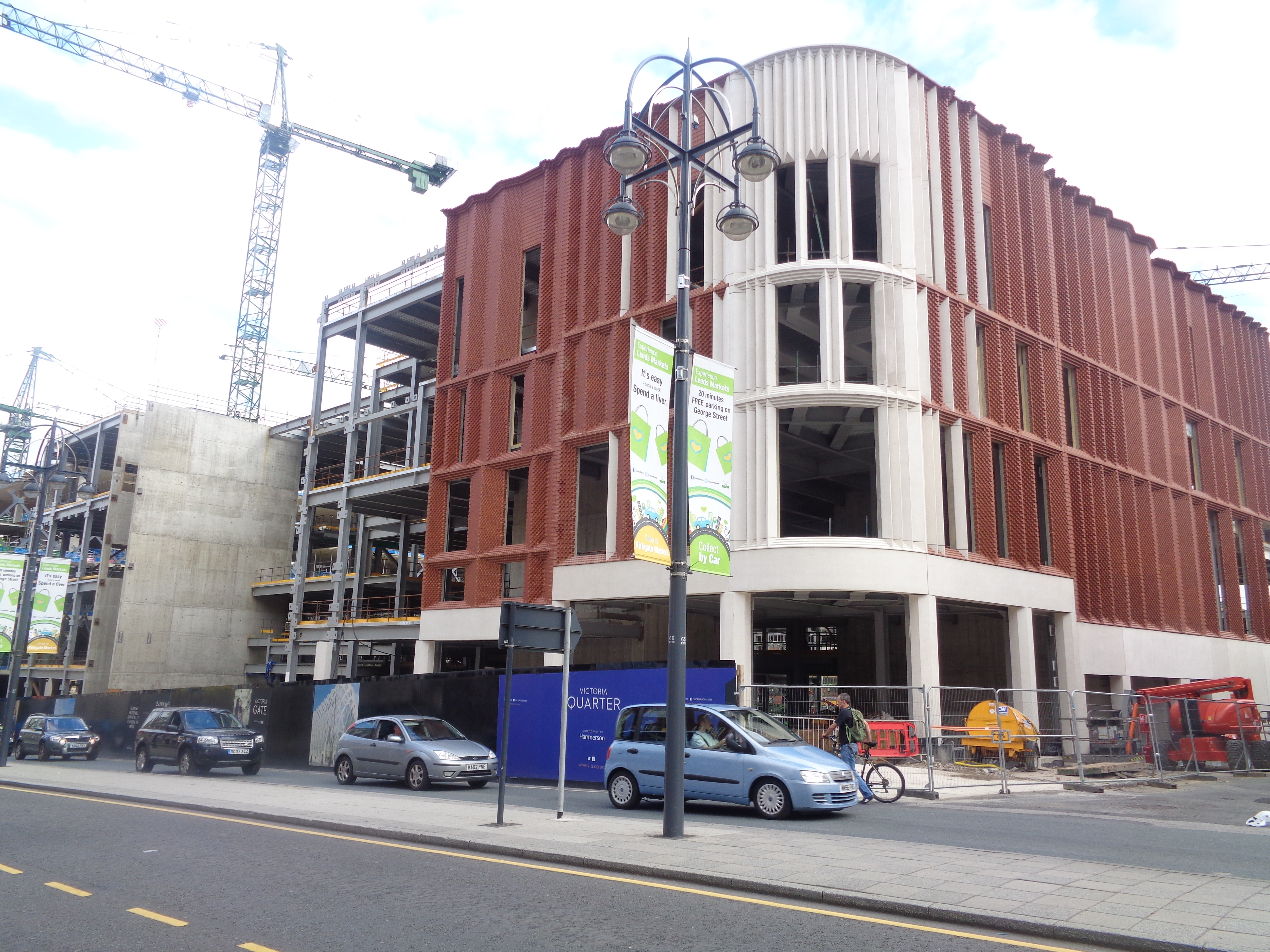 Construction of the Eastgate Quarters, Leeds, West Yorkshire. Taken on the afternoon of Tuesday the 11th of August 2015.